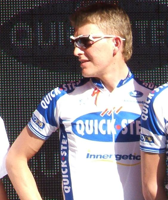 Named cyclist at the en:2009 Tour Down Under team presentation